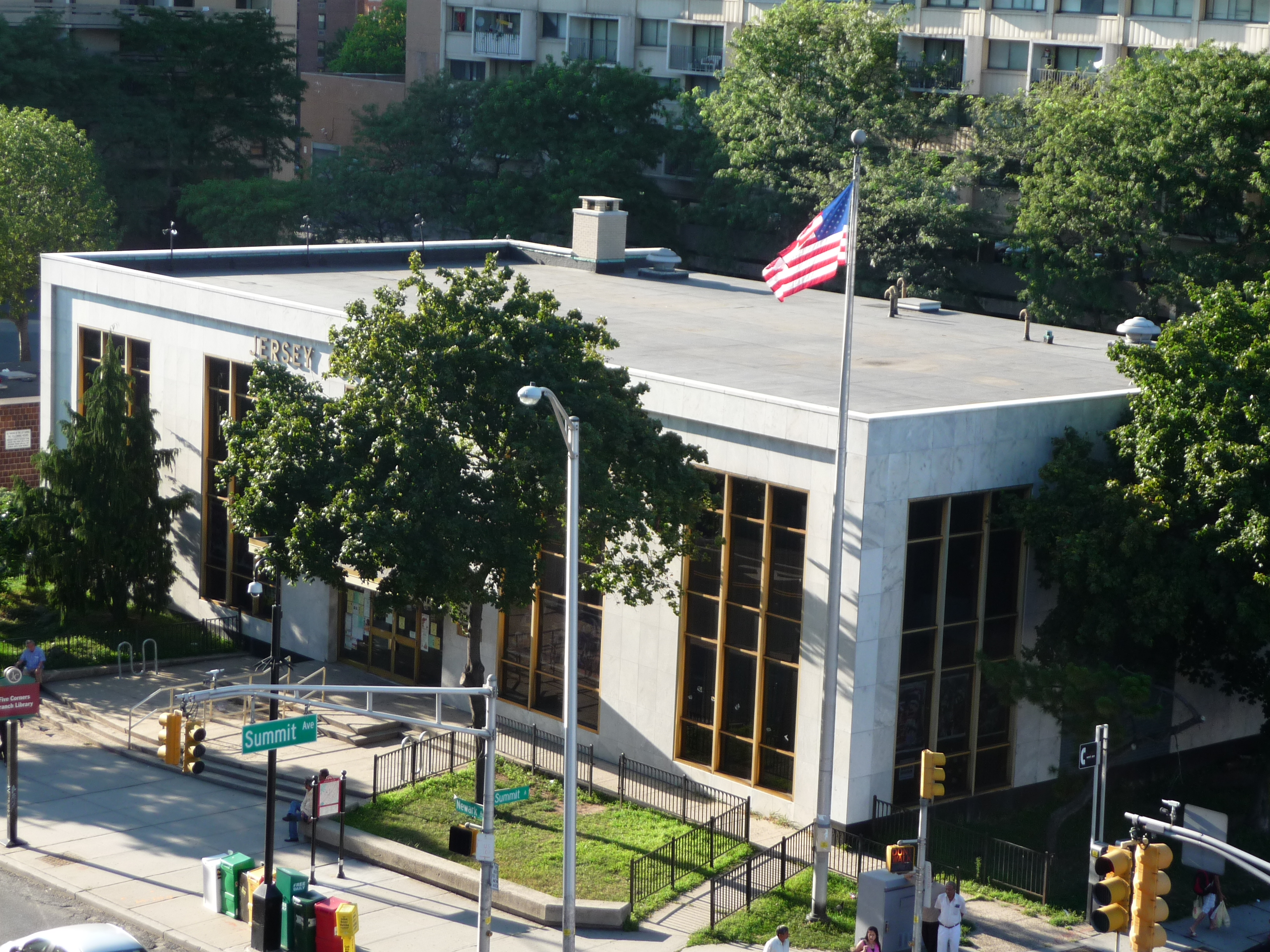 View of the Five Corners Branch of the Jersey City Public Library from the roof of the Five Corners Building.